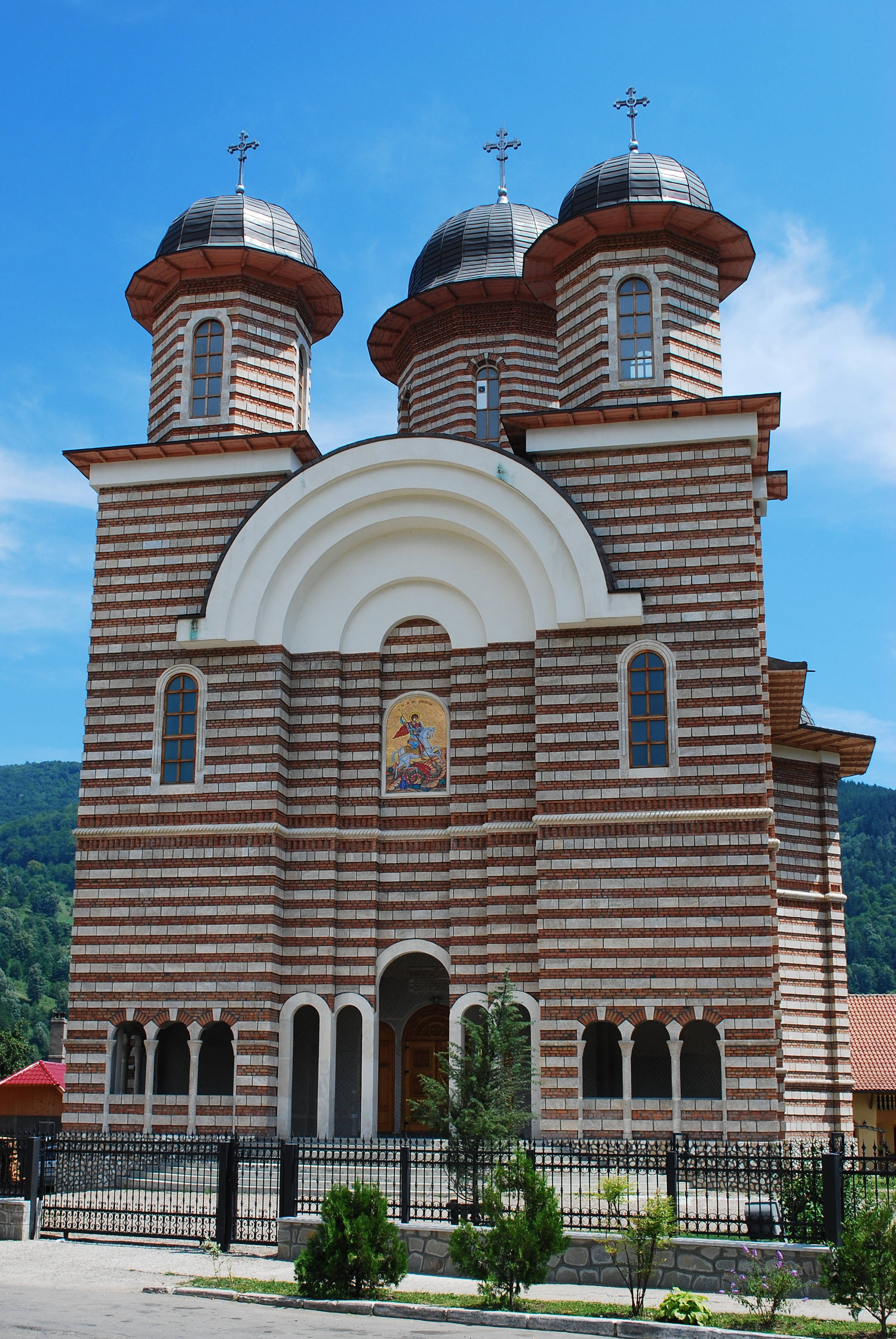 "St. George" Romanian Orthodox Church in Nehoiu, Buzău, Romania